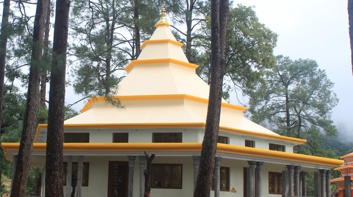 उदयदेव मन्दिर, पाटन बैतडी